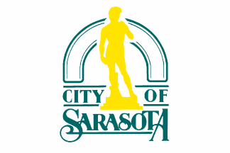 Flag of Sarasota, Florida